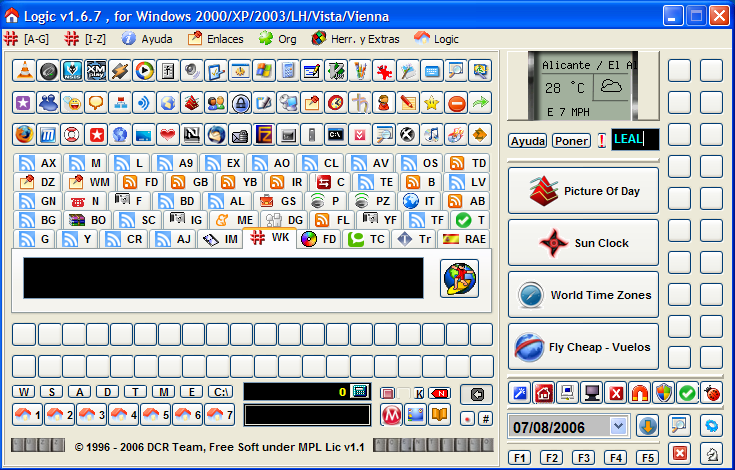 Free Logic image, open source security tool, author dcrteam group, website